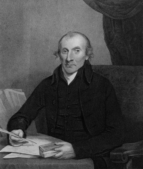 Portrait of Joseph Benson (1749–1821), English Methodist minister.